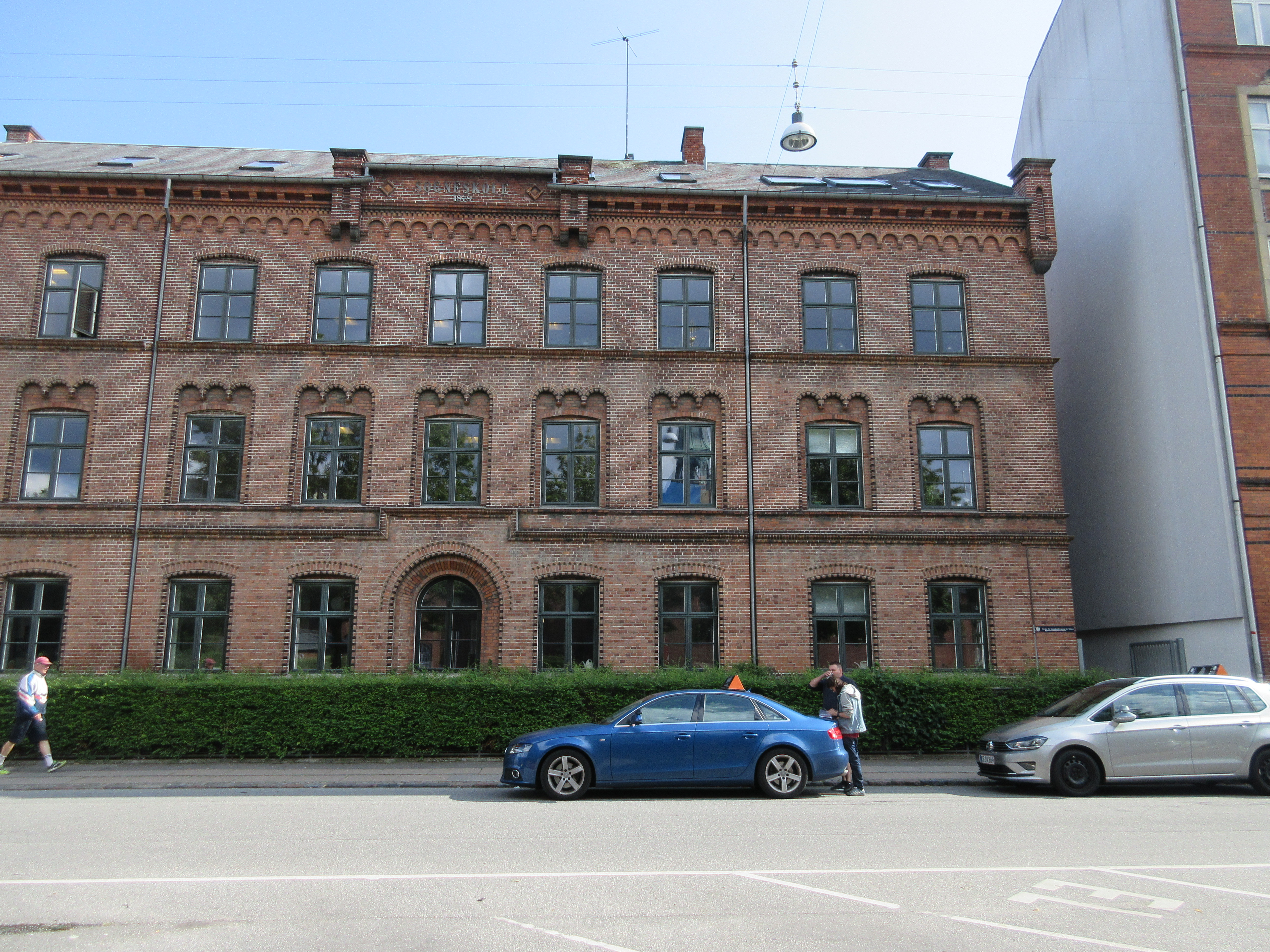 Frankrigsgades Skole at Frankrigsgade 4 in Copenhagen, Denmark